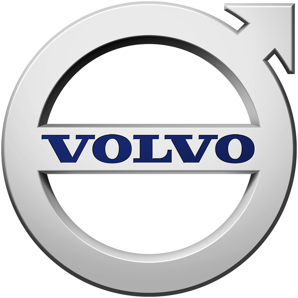 Logo for Volvo Trucks & Bus